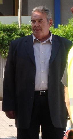 Ángel de Andrés López recording a sequence of the series Pelotas directed by Jose Corbacho and Juan Cruz in l'Hospitalet de Llobregat (Barcelona) (Spain).